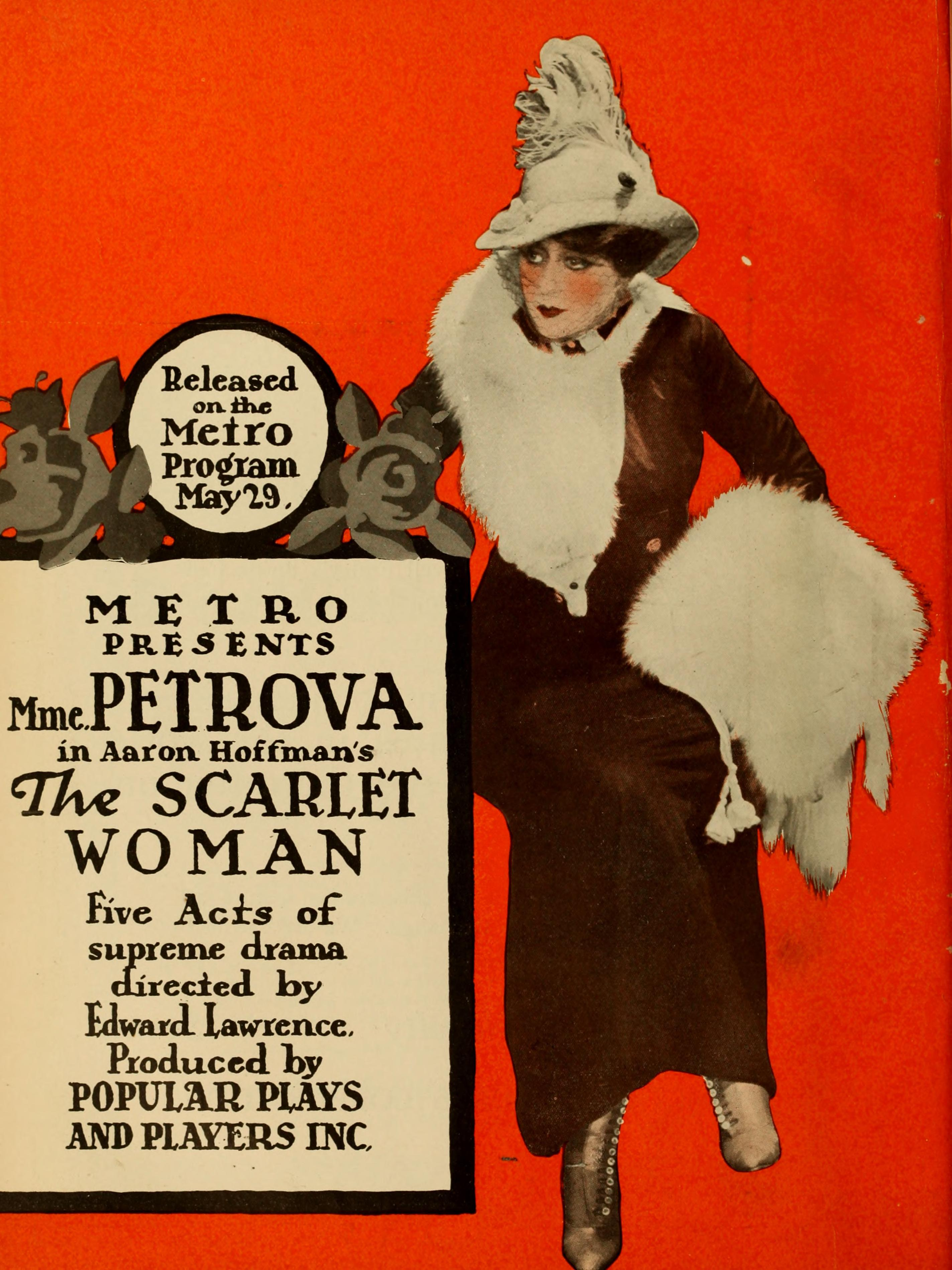 Advertisement in The Moving Picture World for the film The Scarlet Woman (1916).